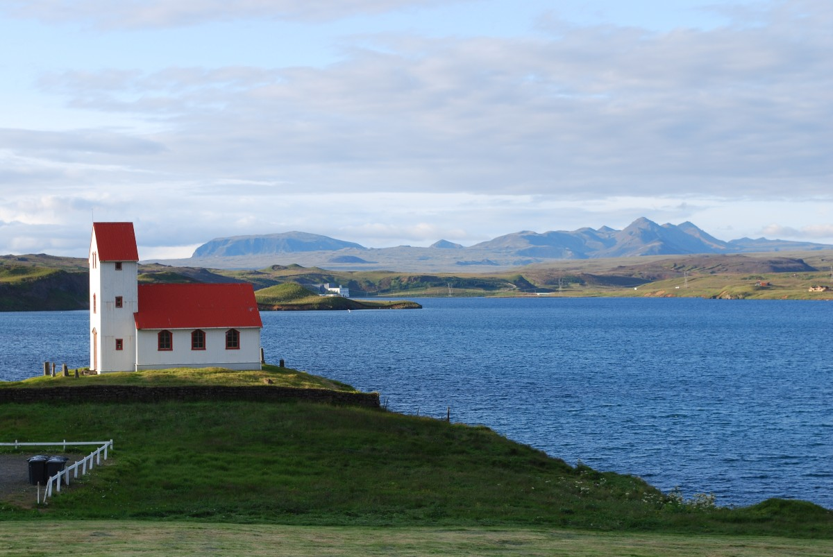 Lake Úlfljótsvatn, especially western and northern part, with church of hamlet Úlfljótsvatn and the hydroelectricity power plant Steingrimsstöð